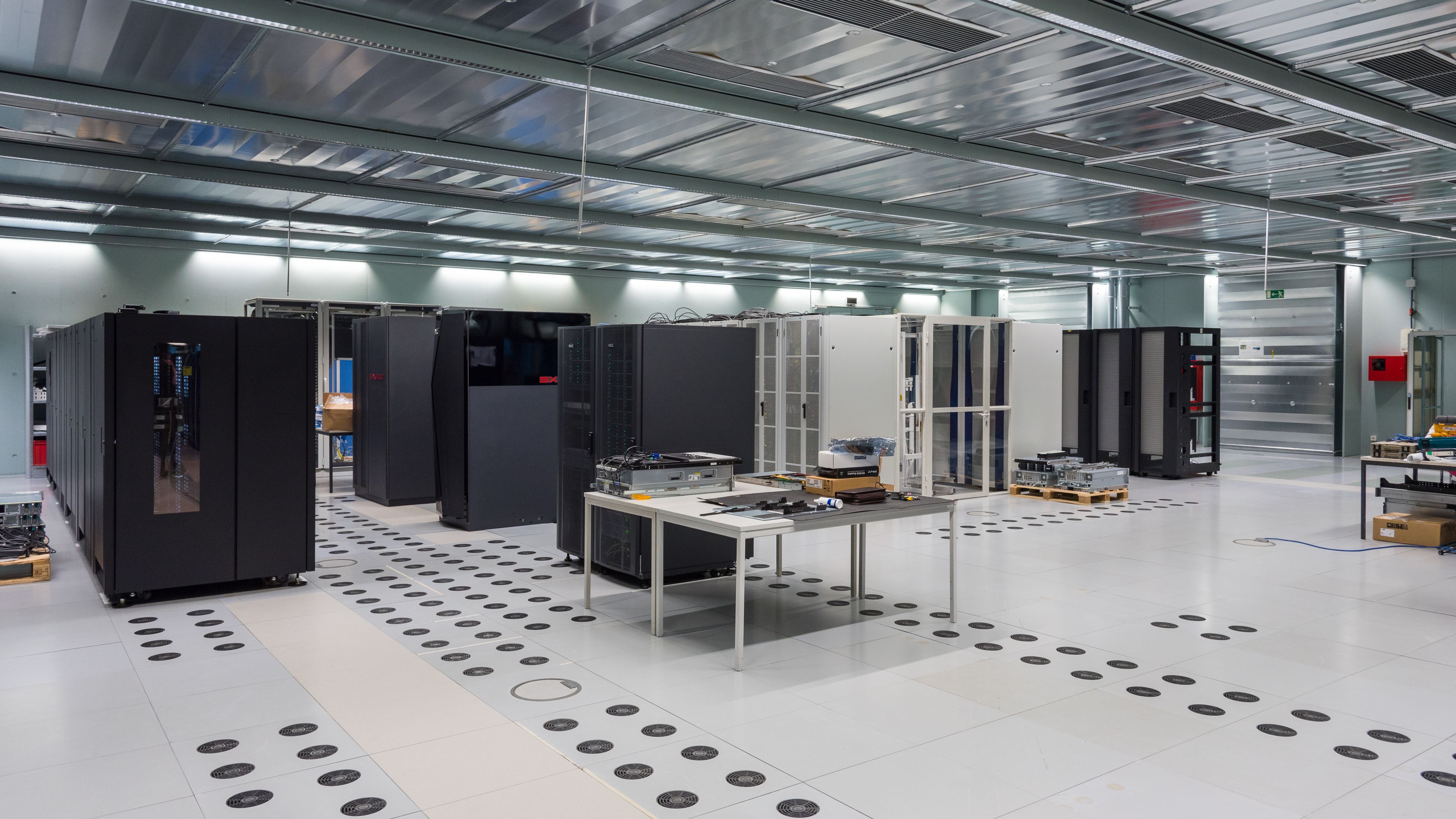 NEC SX-ACE (on the left) and NEC Cluster (laki, laki2, on the right), High Performance Computing Center Stuttgart (HLRS) of the University of Stuttgart.